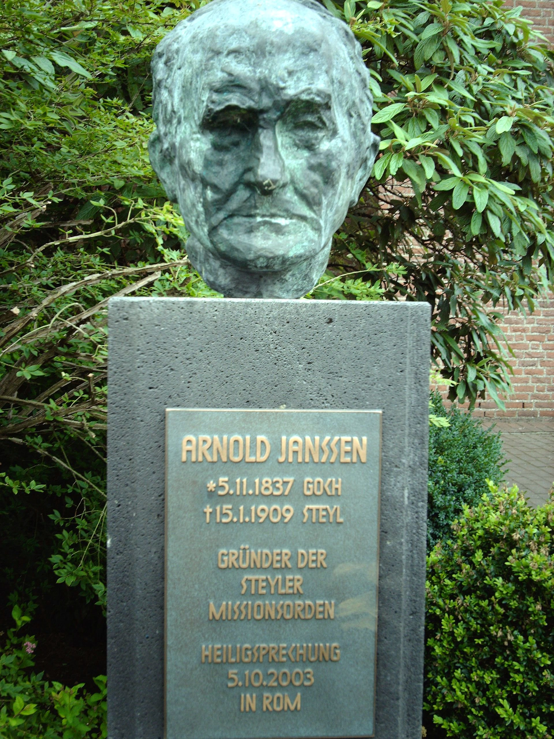 Photo of the Bust of Saint Arnold Janssen in Goch, Germany.